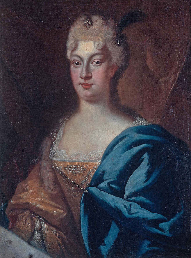 Portrait of Johanna Elisabeth of Baden-Durlach (1680-1757), Duchess of Württemberg